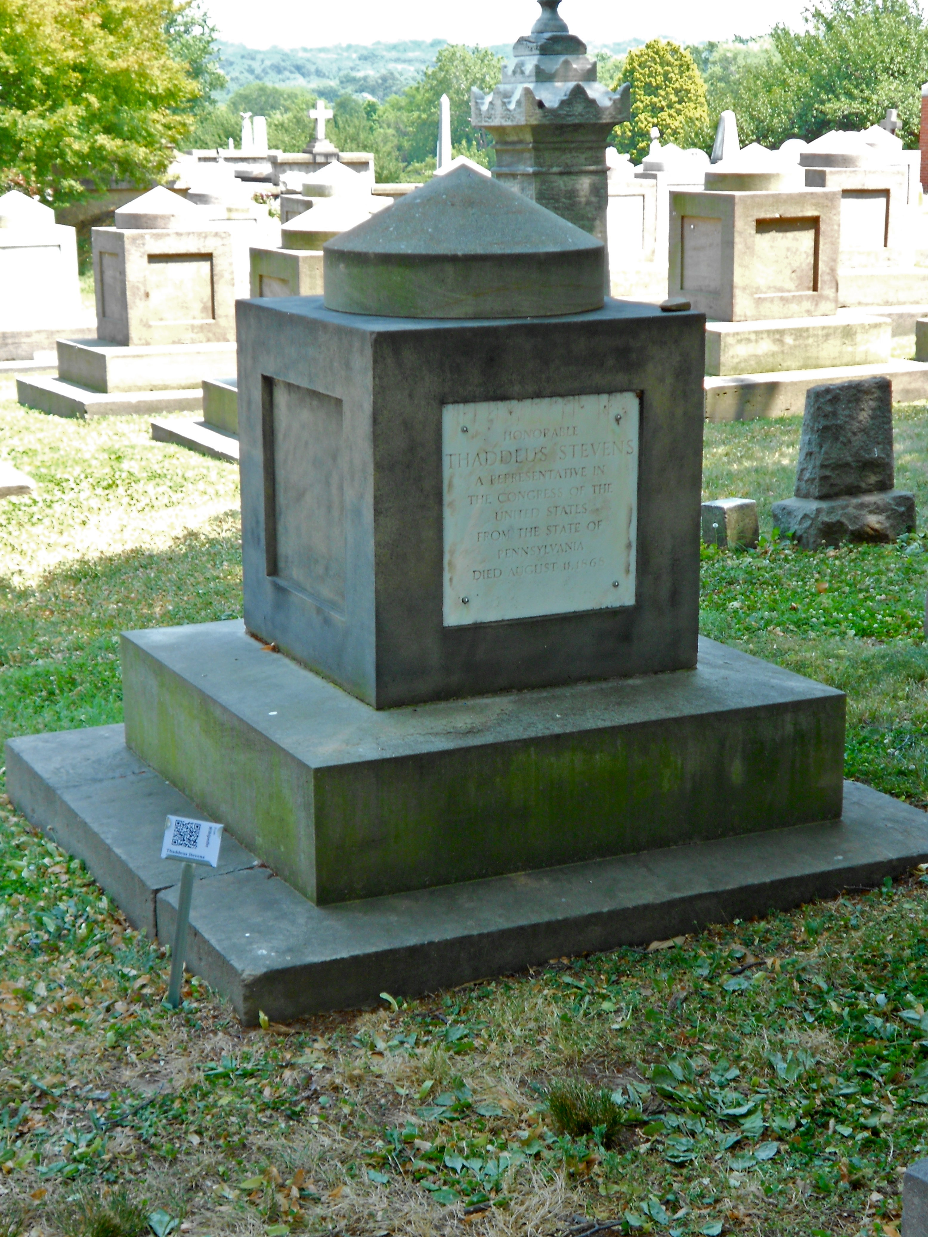 Cenotaph of Thaddeus Stevens, Radical Republican leader during the Civil War, in the Congressional Cemetery in Washington, DC. The Cemetery is a National Historic Landmark